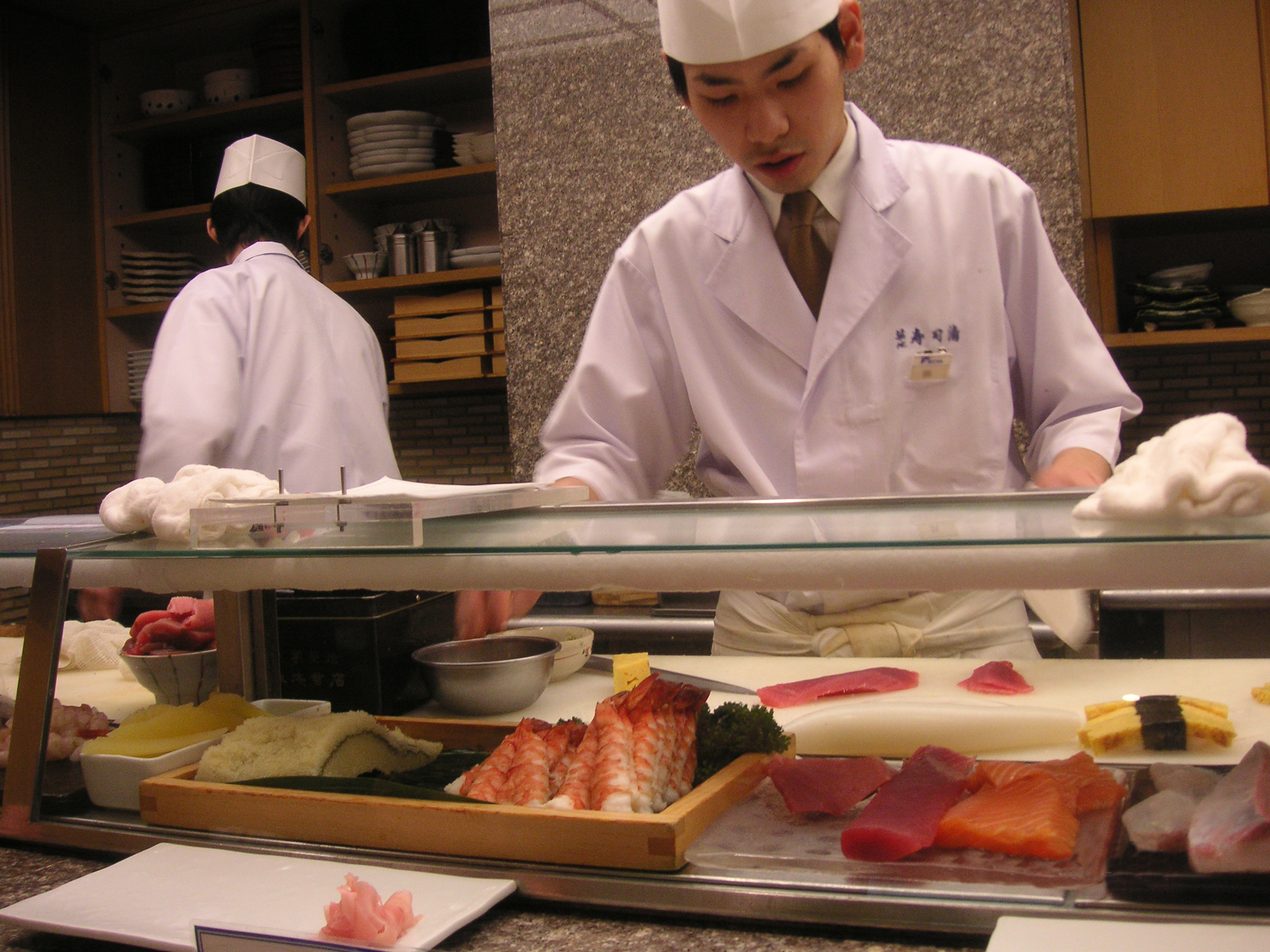 Sushi chef working in a restaurant in Kyoto Station, Kyoto, Japan. Taken by DinkY2K